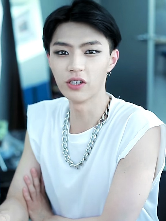 마이네임 인생극장 49화 [Mission 0531] (Life theater of MYNAME ep 49) [K-POP Rare Clip] introduces various videos from artists in diverse genres including pop, indie, hip-hop, R&B, jazz. You can also meet a lot of contents like behind-the-scenes, special performances, and new releases. Unfortunately we don’t provide translation services for all of [K-POP Rare Clip] videos, 1theK will endeavor to introduce more various K-POP contents through [K-POP Rare Clip]. [K-POP Rare Clip]은 가요, 인디, 힙합, R&B, 재즈 등 다양한 아티스트들의 영상을 소개합니다. 스타들의 무대 뒷모습부터 특별한 라이브, 음반 발매 소식까지 다양한 컨텐츠도 만나볼 수 있습니다. 아쉽게도 [K-POP Rare Clip]의 모든 영상에 대한 자막을 제공할 수는 없지만, 1theK는 [K-POP Rare Clip]을 통해 더욱 다양한 K-POP 컨텐츠를 소개하기 위해 노력하겠습니다. ▶1theK FB : ▶1theK TW : ▶1theK G+